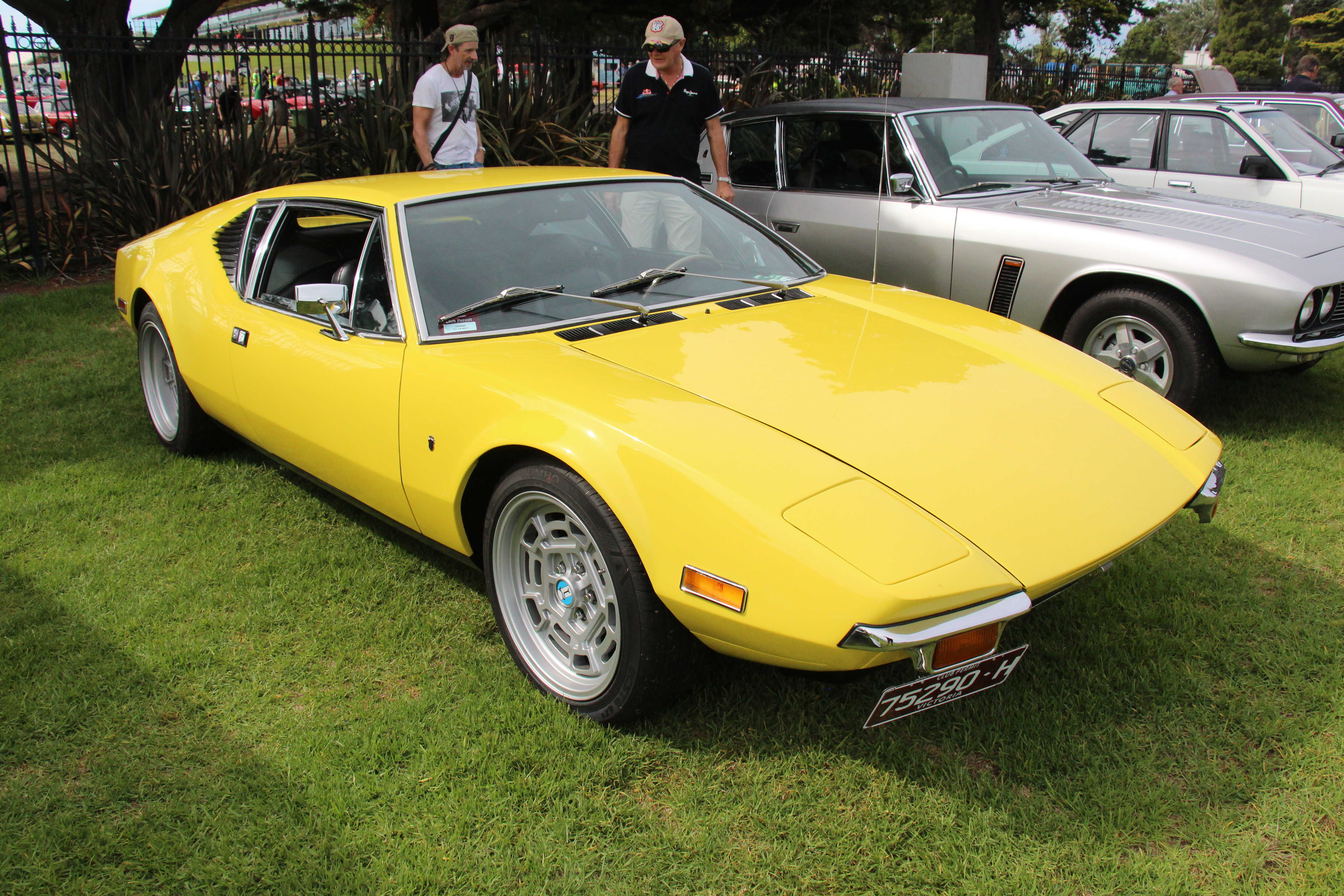 DeTomaso was an Italian company known for producing sports and luxury vehicles. The 1st Sports car was the 1963-66 Vallelunga with mid mounted Cortina engine. The 2nd was the Mangusta, built from 1966-1971, with help from Carroll Shelby, it had mid mounted 289 Ford V8 engine (until 1968, then 302) The 3rd, the 1971-93 Pantera with 351 Cleveland Ford V8. Unlike the Mangusta, which employed a steel backbone chassis, the Pantera was a steel monocoque design. 7260 were made. The Luxury Pantera L was introduced in 1972, it featured large black bumpers and the GTS with even more luxury in 1974. In 1975, the GT5, which had rivetted wheelarch extensions and the GT5S model which had blended arches and a distinctive wide-body look The last was the 1993-04 Guara (BMW V8 til 98 then Ford V8)